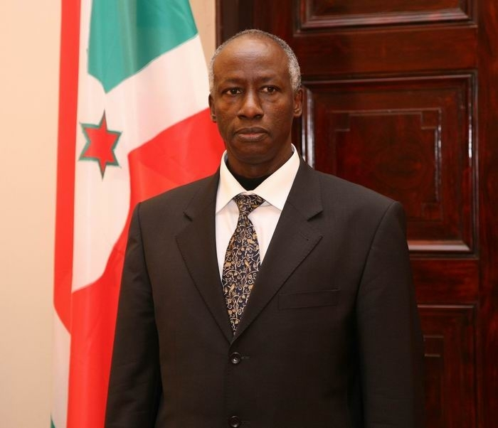 Rénovat Ndayirukiye, Ambassador of Burundi to Russia